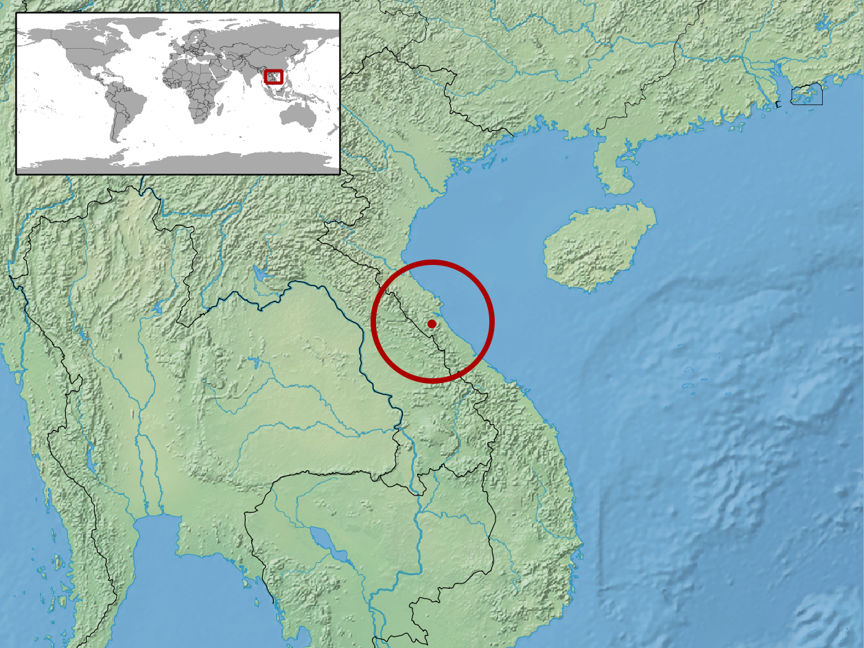 type locality of Gekko scientiadventura (holotype ZFMK 76198 and paratypes ZFMK 76174 - 76179 and 80651 - 80652)